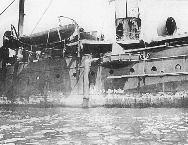 Крейсер Жемчуг после Цусимского сражения